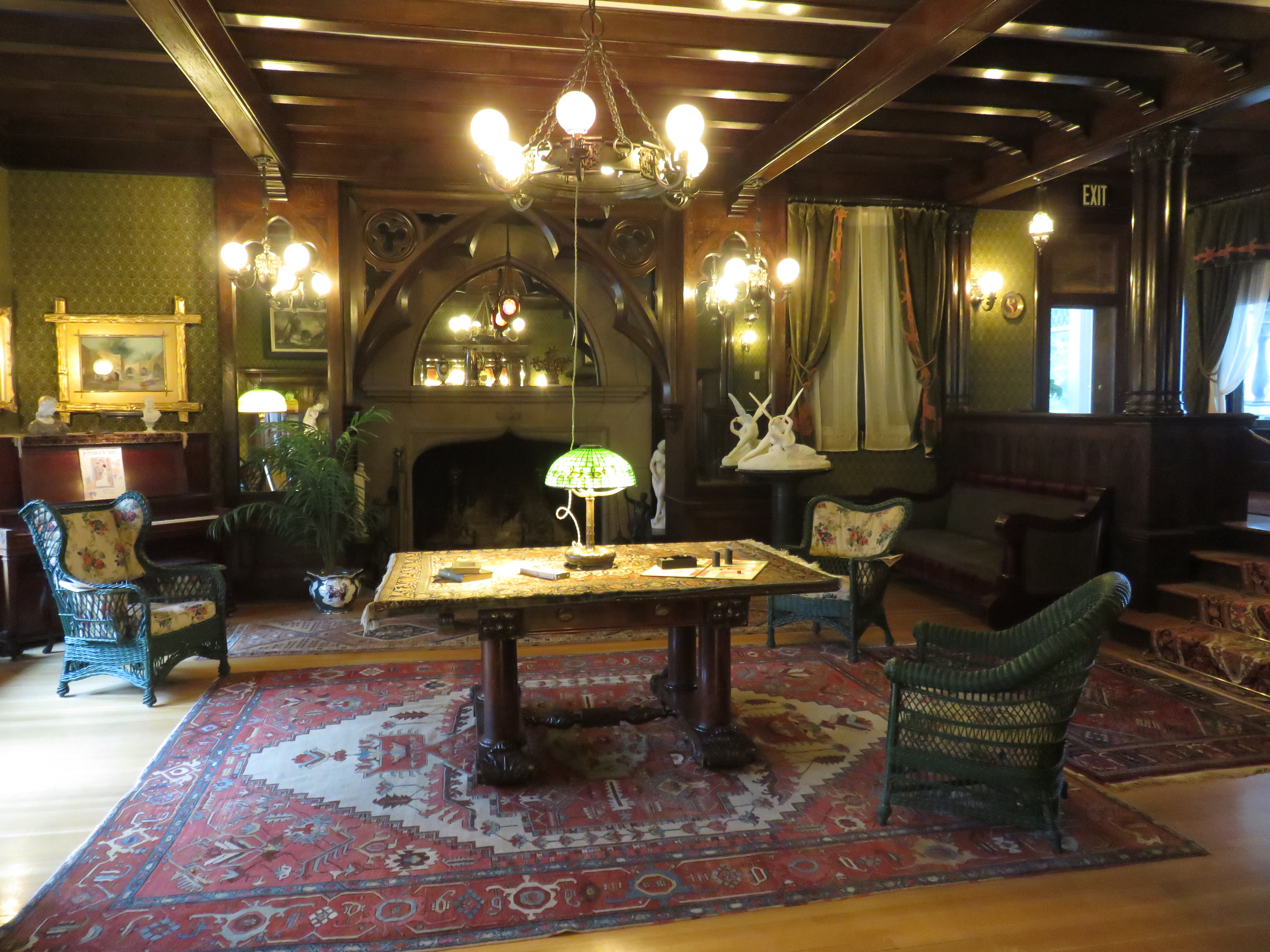 Library in Campbell House in Spokane, Washington in 2018